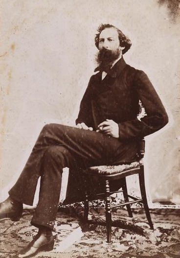 Ferdinand II, King Consort of Portugal.